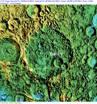 Clementine LIDAR Altimeter texture from PDS Map-a-Planet remapped to north-up aerial view by LTVT. The dot is the center position and the white circle the main ring position. Grid spacing = 10 degrees.